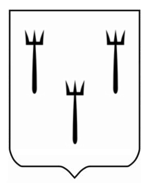 Worthington CoA